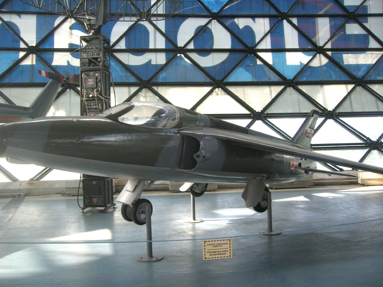 Folland Gnat in Belgrade Aviation Museum. Author of the picture is user Marko M.